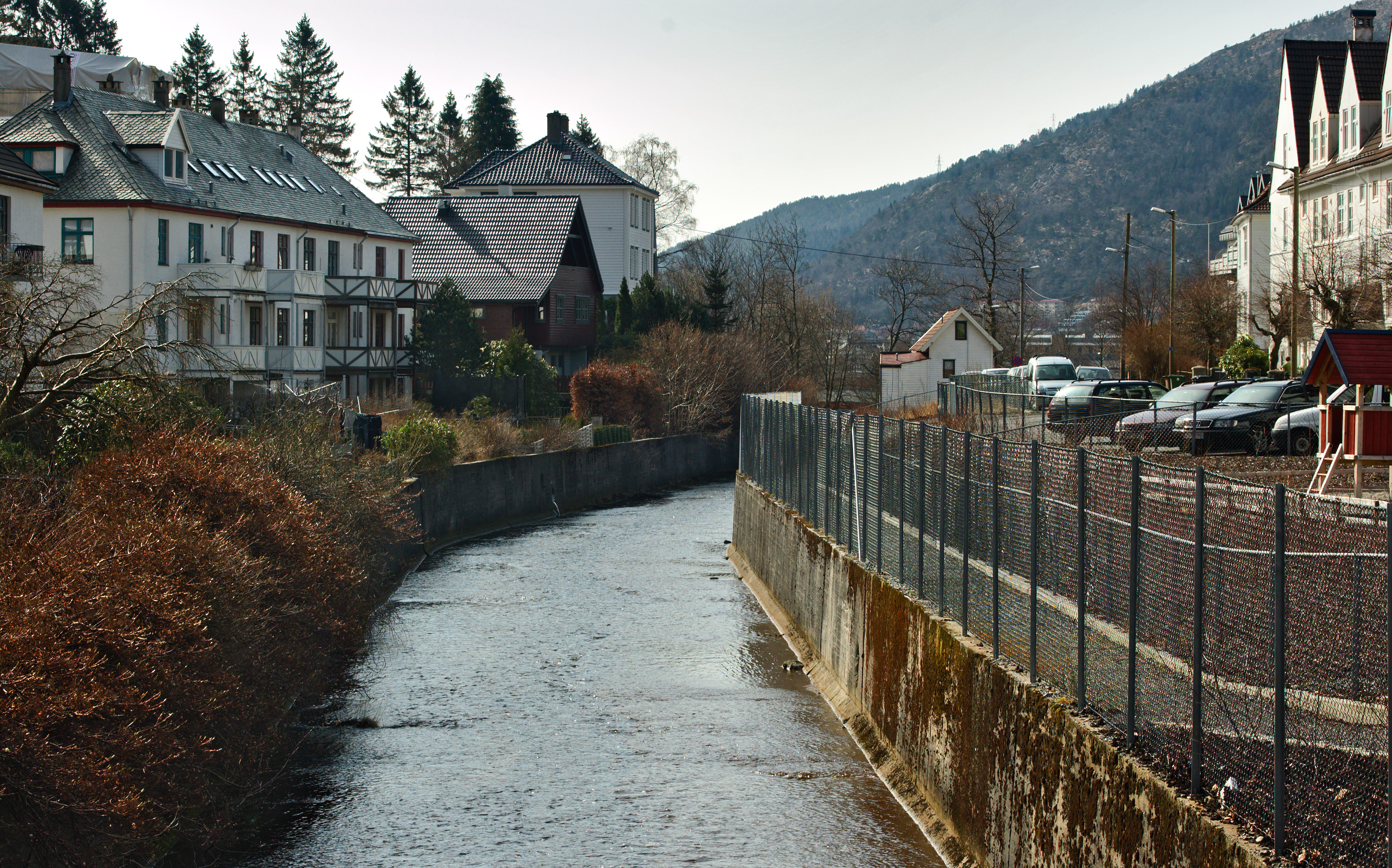 Møllendalselven, a river in Bergen, Norway, near its source, Svartediket.